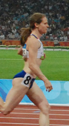 women's 200 meters semi-final at the bird's nest, Beijing, august 20th 2008. Emily Freeman